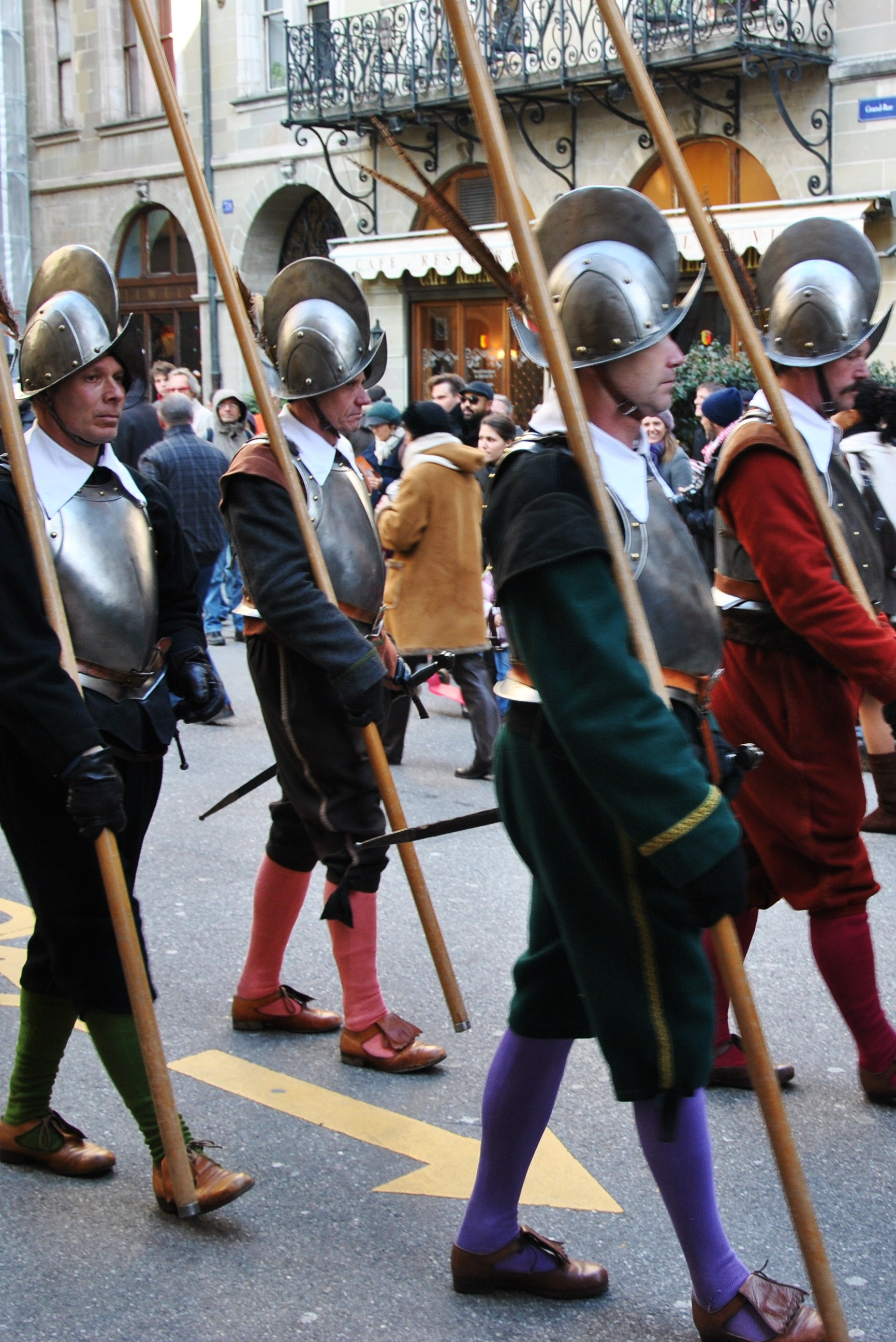 Military procession at Geneva's Escalade 2010